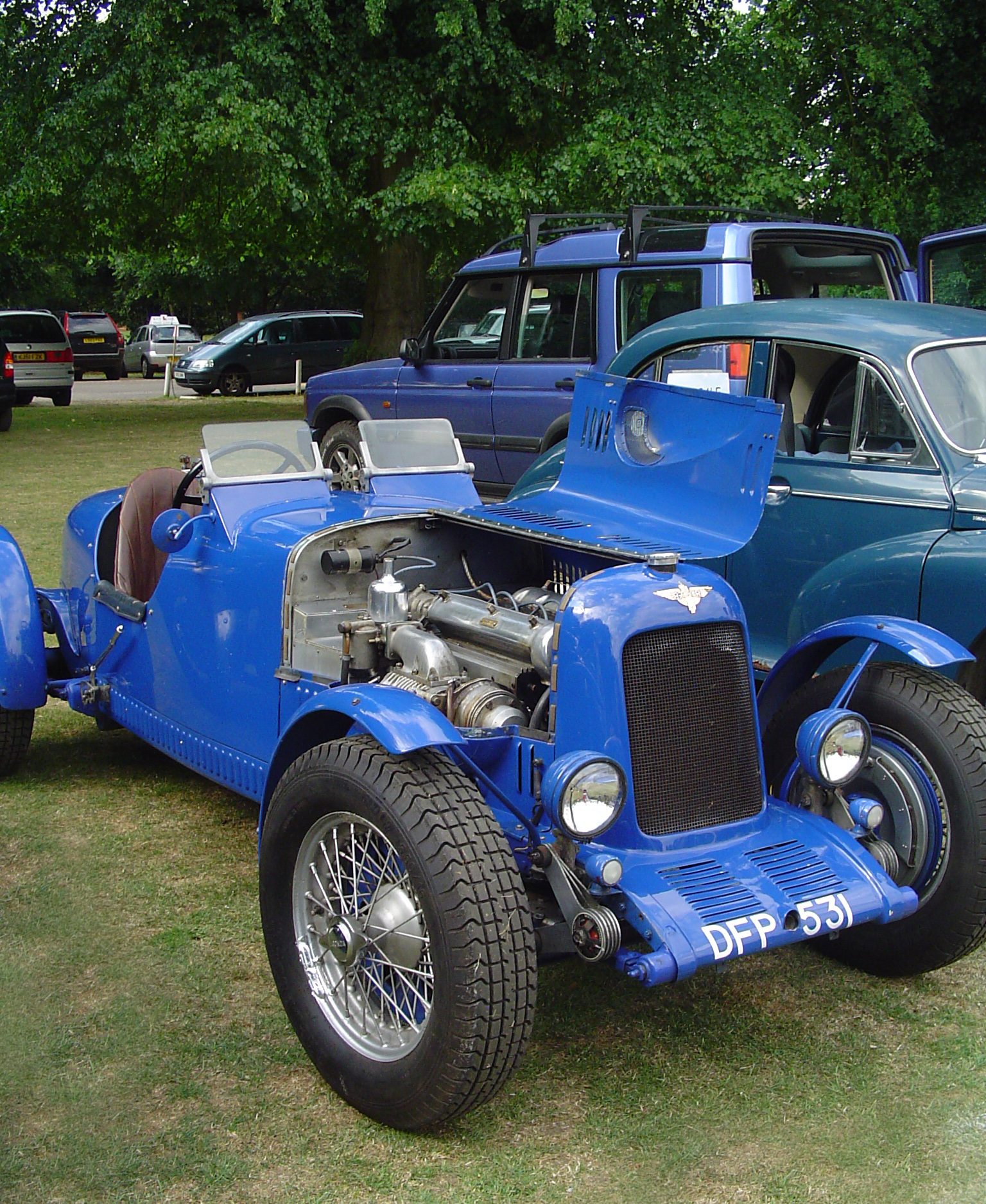 Rapier - manufactured 1937 1087 cc (DVLA)